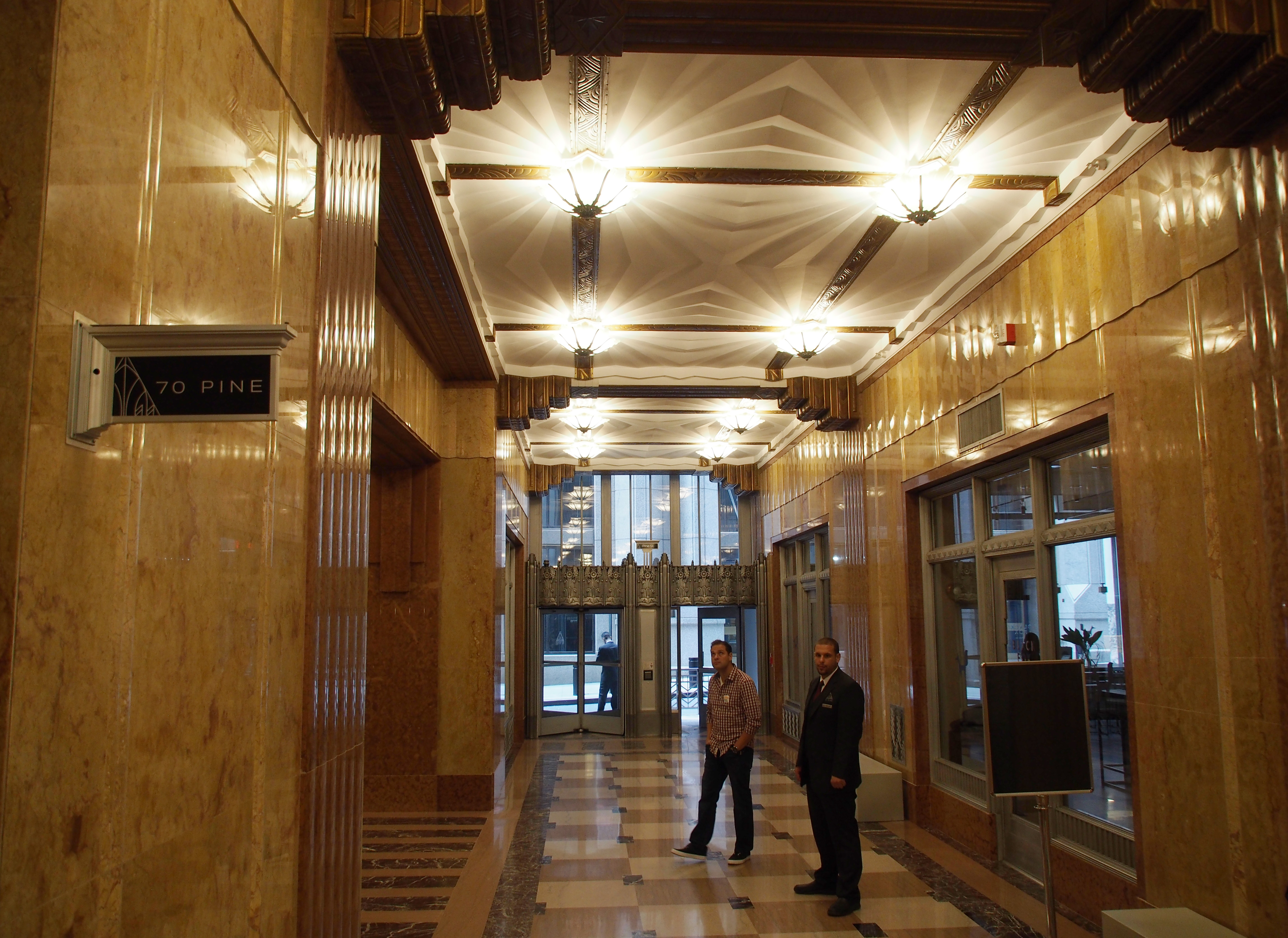 70 Pine Street - Open Access: The security watches the residential entrance near the front of the building.Site: 70 Pine Street